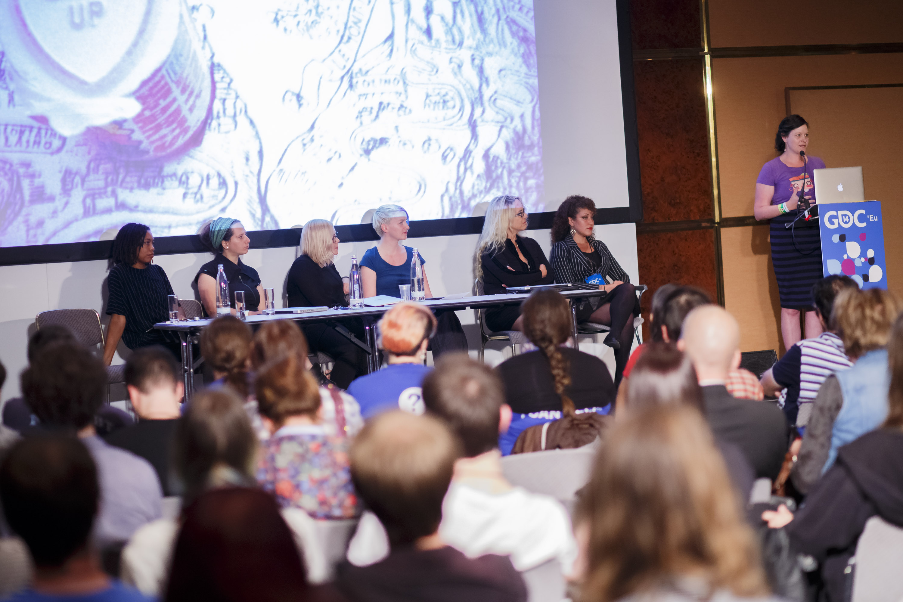 Speaker: Leigh Alexander (Gamasutra), Zuraida Buter (zo-ii), Auriea Harvey (Tale of Tales), Annakaisa Kultima (University of Tampere), Henrike aka Riker Lode (Machineers), Siobhan Reddy (Media Molecule), Brenda Romero (Romero Games/UC Santa Cruz) - Copyright © Dennis Stachel/atmospheria.com for GDC Europe